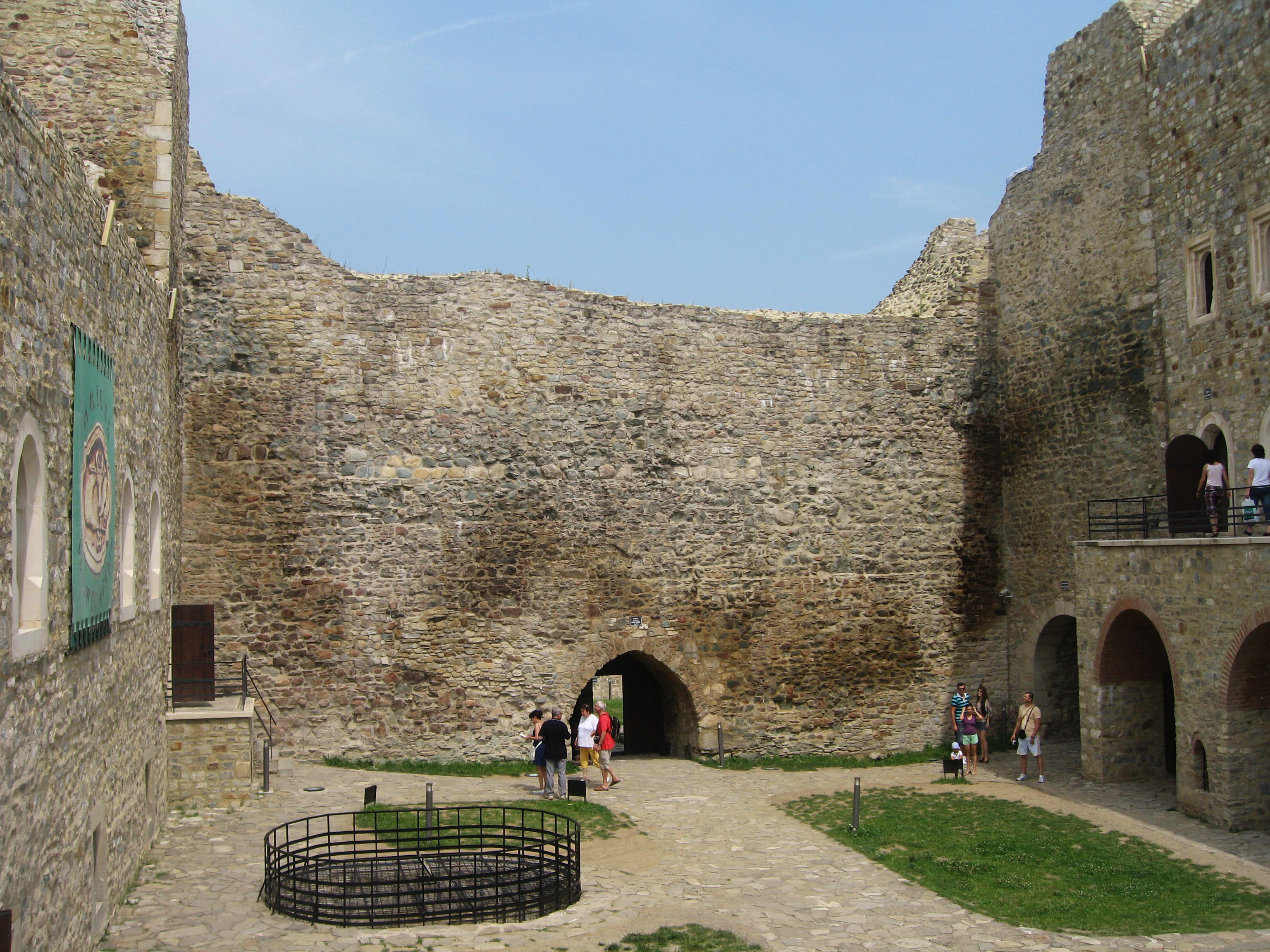 Neamț Citadel